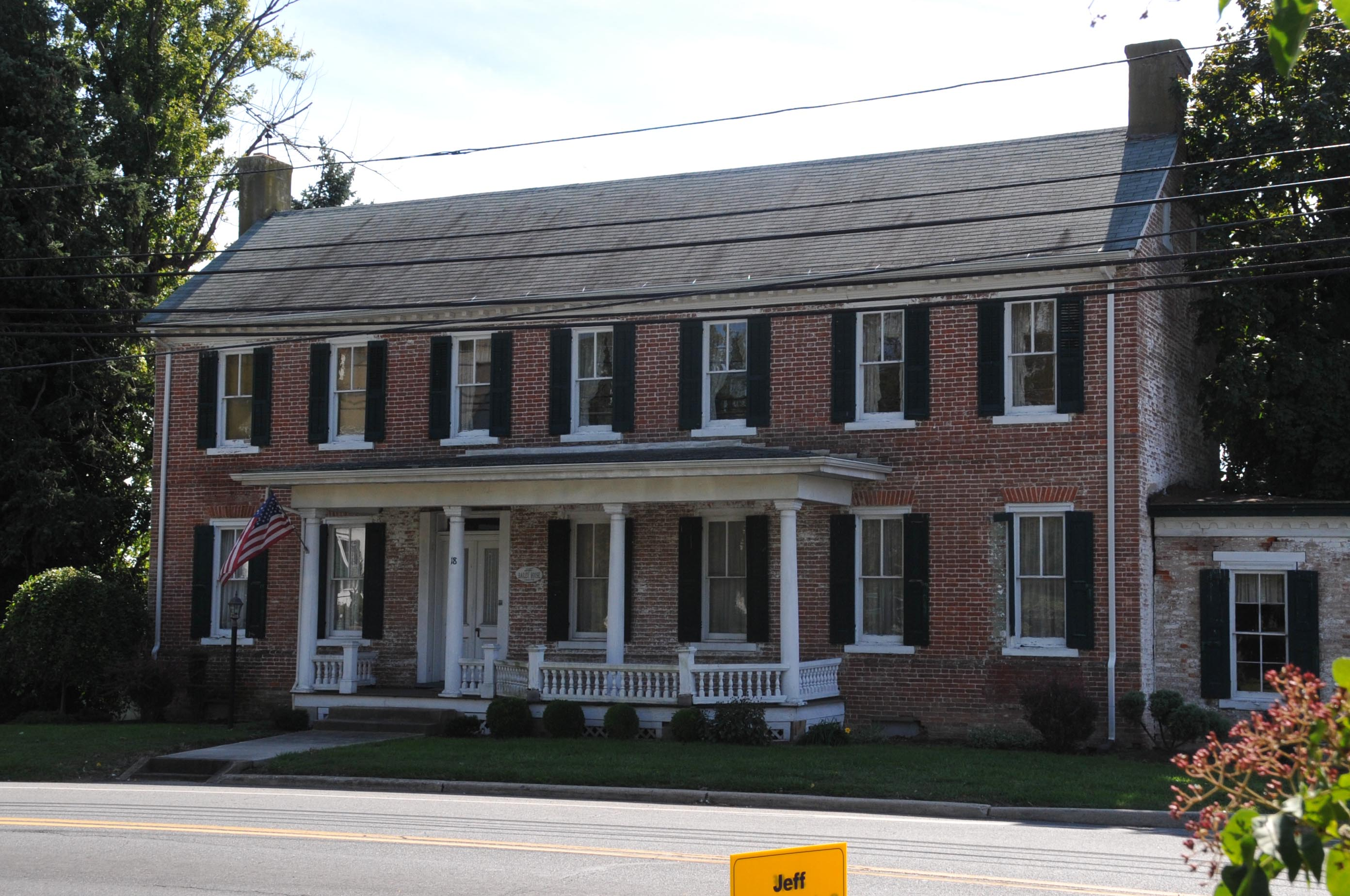 THIS HOUSE IS PART OF THE KENTON HISTORIC DISTRICT LOCATED AT THE JUNCTION OF ROUTES 300 AND 42. ON THE NPS NOMINATING FORM IT IS LISTED AS THE WILDS-PRETTYMAN HOUSE BUT ON THE HOUSE IT IS LISTED AS THE BAILEY HOUSE. IN BOTH CASES THE DATE OF CONSTRUCTION IS CIRCA 1780 AND THE NPS DESCRIPTION IS ABSOLUTELY IDENTICAL TO THE HOUSE PICTURED. ROUTE 42 IS ALSO COMMERCE STREET ON WHICH THE DISTRICT IS MAINLY LOCATED